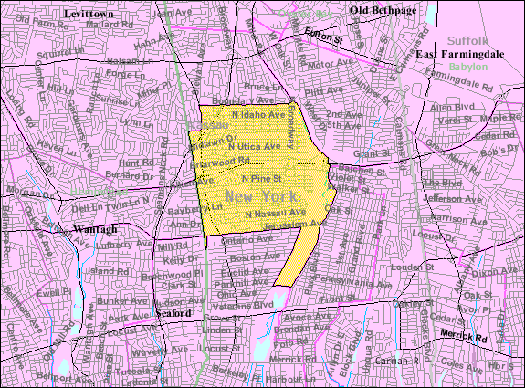 North Massapequa, New York map from